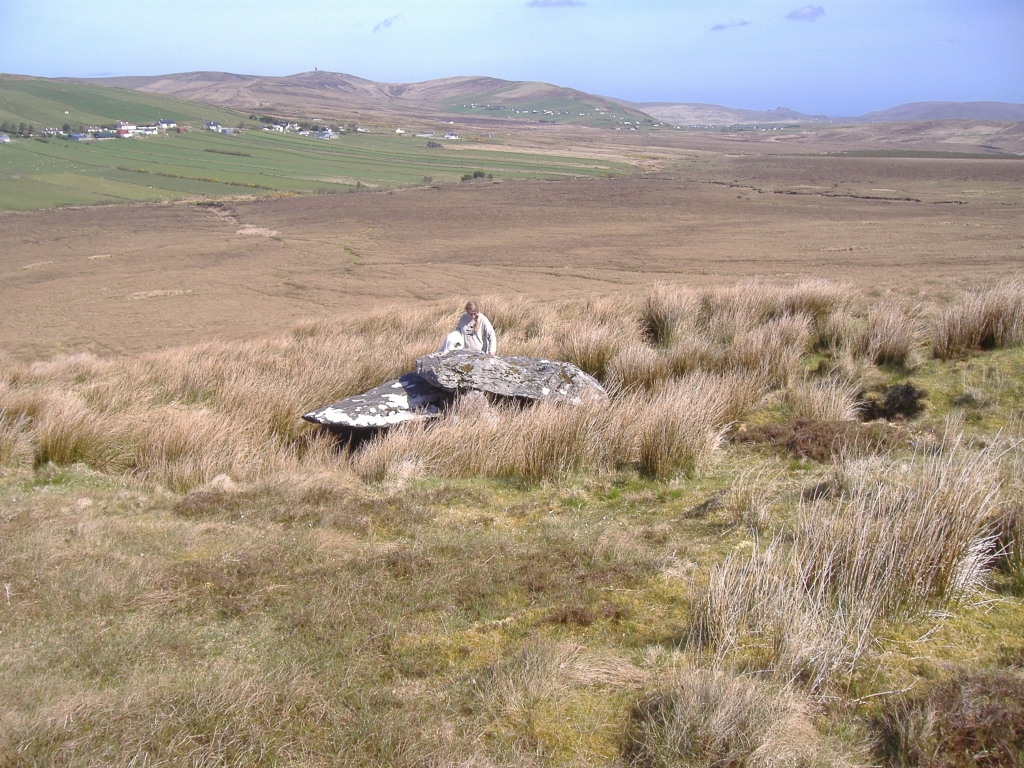 An unclassified megalithic tomb situated on the north slopes of Faulagh mountain, Kilcommon, Erris, County Mayo